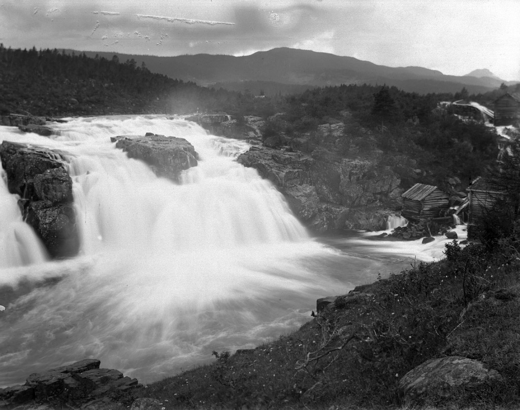 Ryfossen waterfall in Valdres area. Photo taken in Vang Municipality, on the other side Vestre Slidre Municipality.